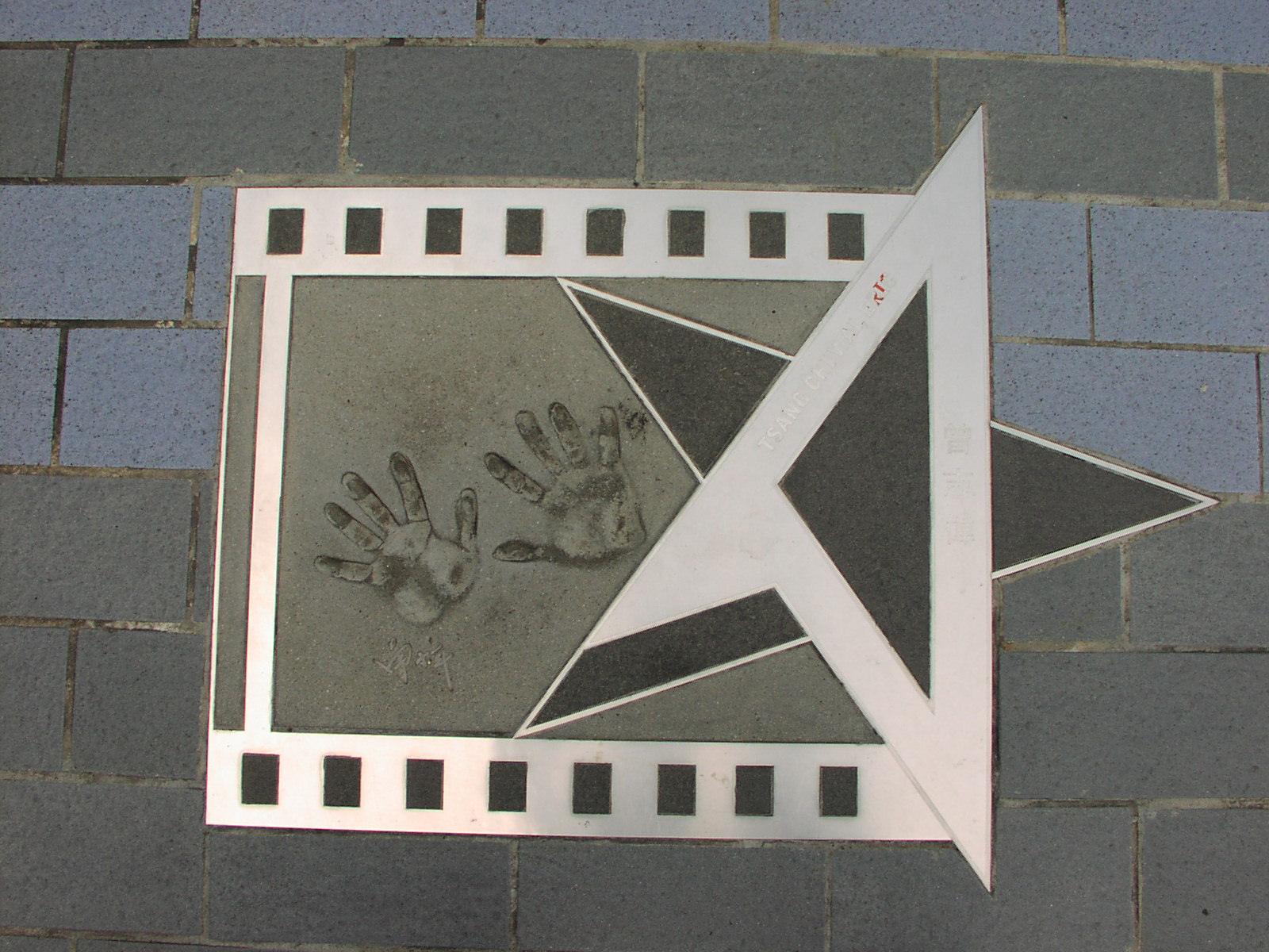 Avenue of Stars, Hong Kong